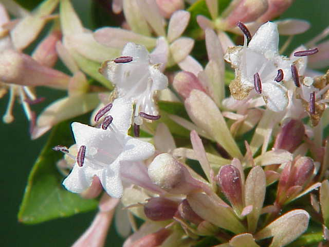 Species: Abelia chinensis Family: Caprifoliaceae Image No. 3